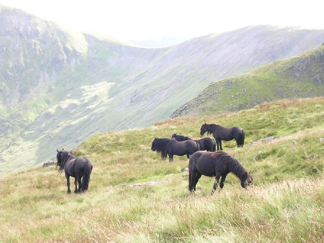 Semi-wild fell ponies